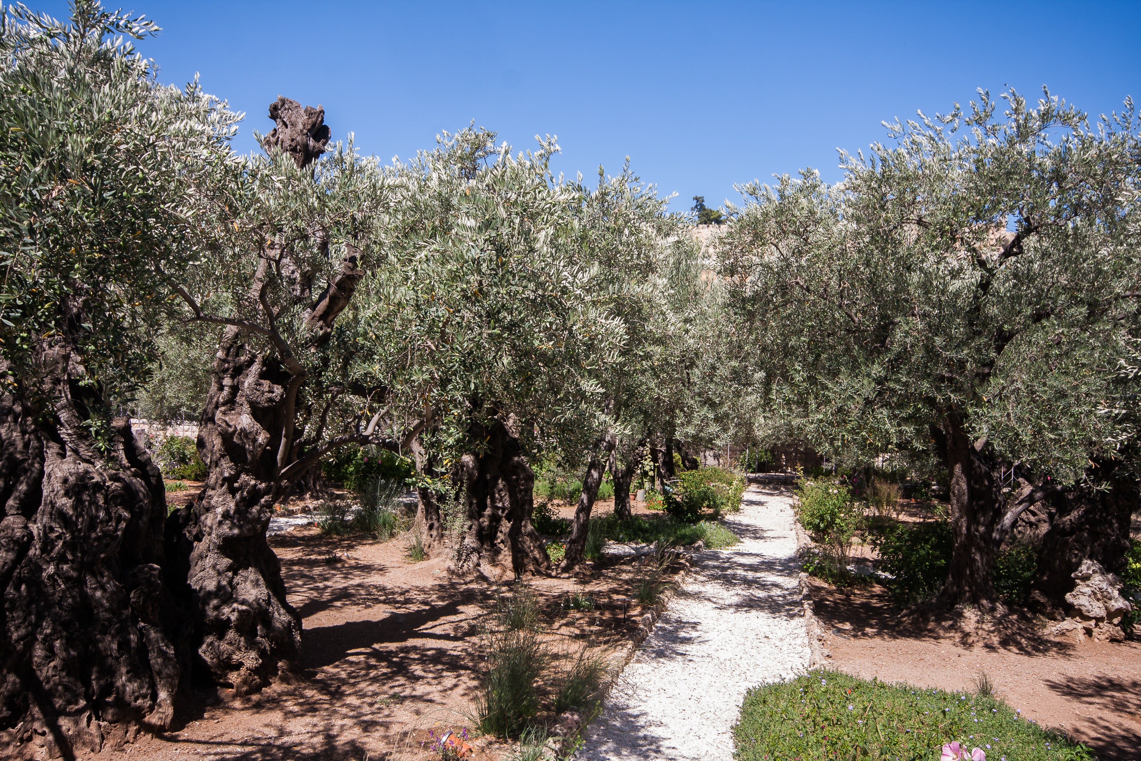 Olive trees in Gethsemane.